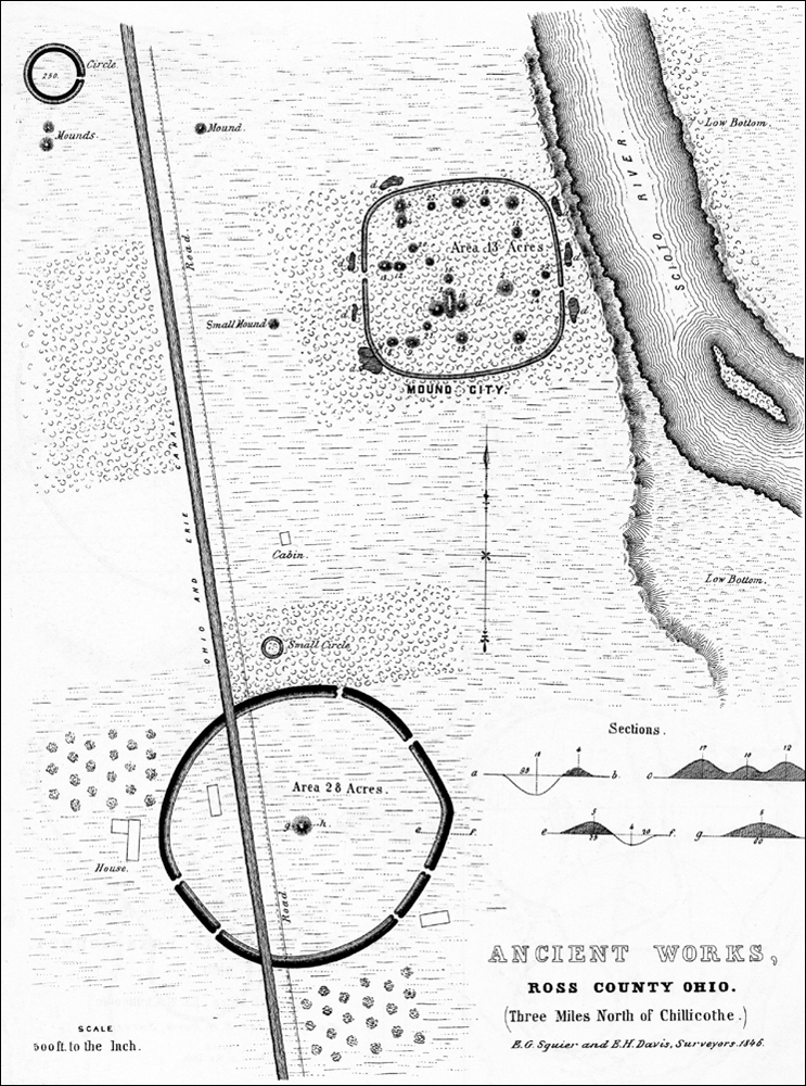 Squier and Davis engraving, plate number XIX, of the Mound City Group, Shriver Circle Earthworks and other earthworks, now part of Hopewell Culture National Historical Park in Ross County near Chillicothe, Ohio.